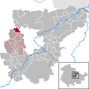 Ottstedt a. Berge in Thuringia - District Weimarer Land